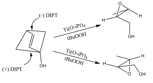 Mnemonic for determining chirality of Sharpless Epoxidation product